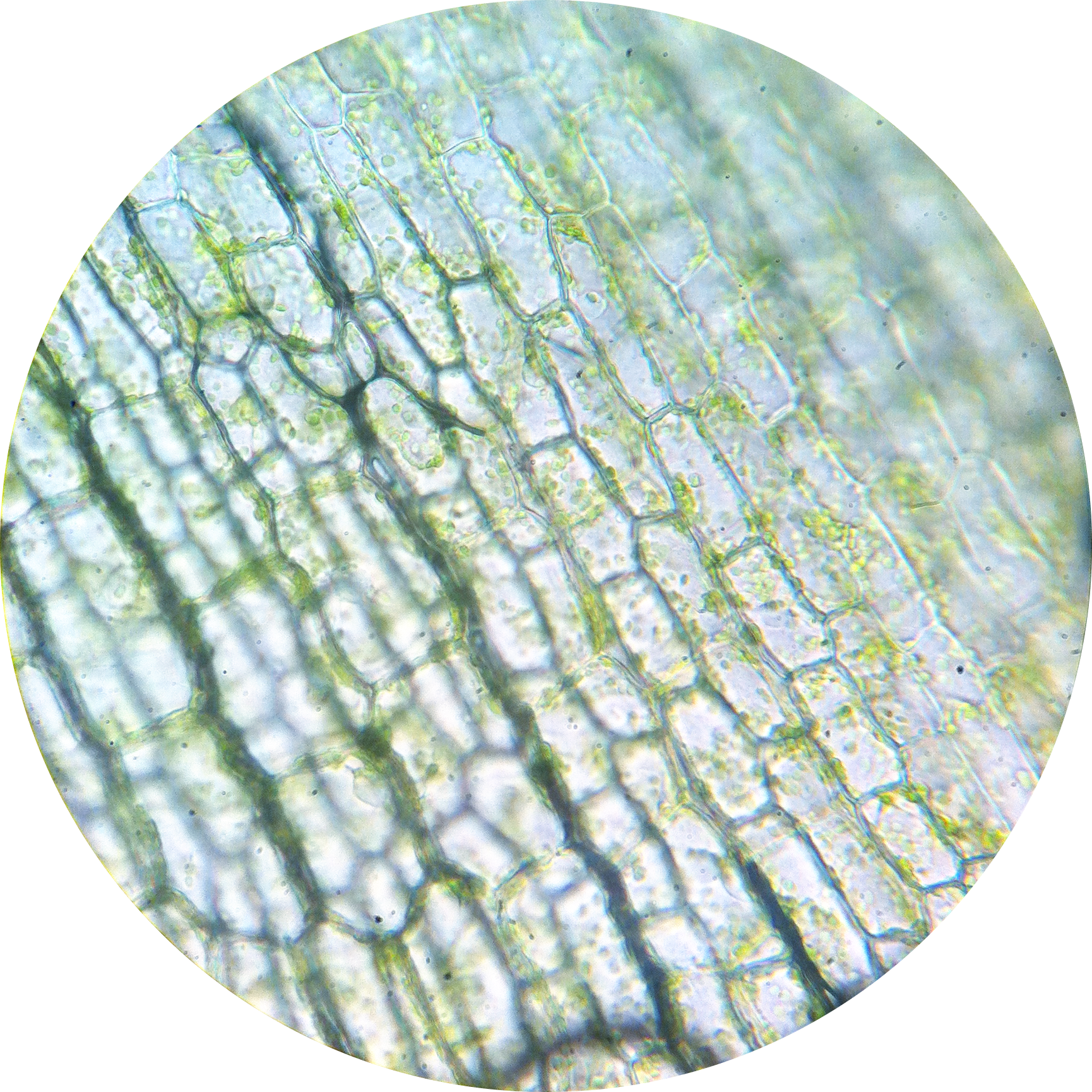 Microscope images of the cells of elodea. Original (un color-corrected) images are in the file history.